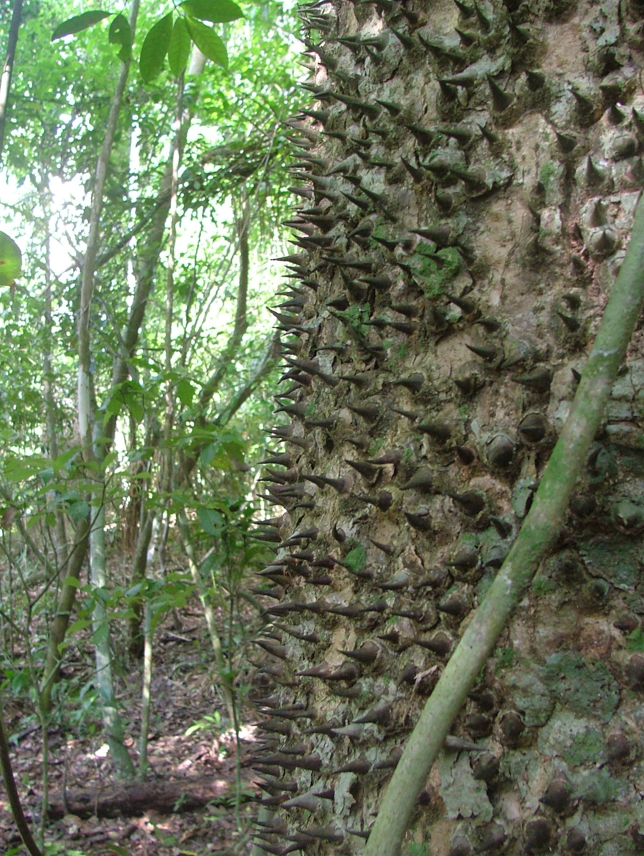 A photograph of the bark of a tree of the Hura genus